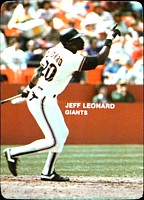 A baseball card of the San Francisco Giants' outfielder Jeff Leonard from the 1985 Mother's Cookies San Francisco Giants trading cards set. The card is numbered #4 in the set.